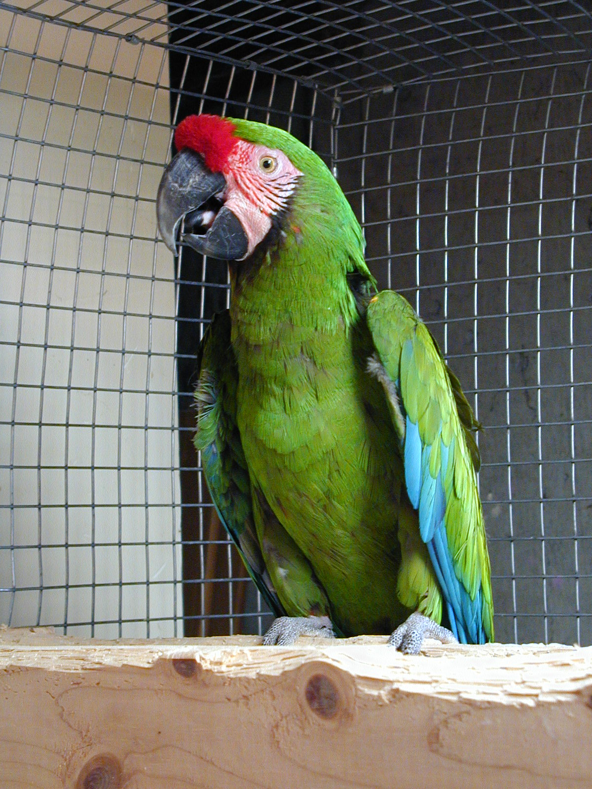 Great Green Macaw (also known as Buffon's Macaw). A male in a cage.